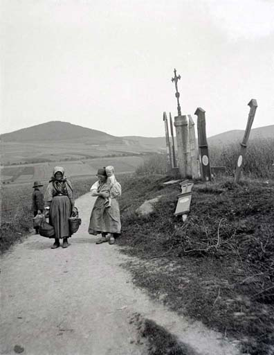 On Way From Market - boards of the deceased (Šumava - Böhmerwald) The photo illustrates a custom once widespread in mountainous regions along Bavarian - Bohemian border, so called Totenbrett, a board on which body of a deceased reposed was after burial permanently installed along road to commemorate that person.)